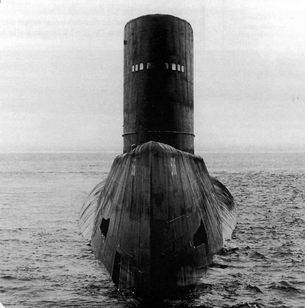 This undated bow view of the nuclear-powered radar-picket submarine USS Triton (SSRN 586) shows the immense size of the submarine, which was [the] largest U.S. Navy submarine until the Ohio-class ballistic missile boats. U.S. Navy photo. From article "When Triton Circumnavigated the Globe: Sub’s periscope appeared as a “gleaming mysterious eye” to fisherman" by Edward H. Lundquist dated September 1, 2013.